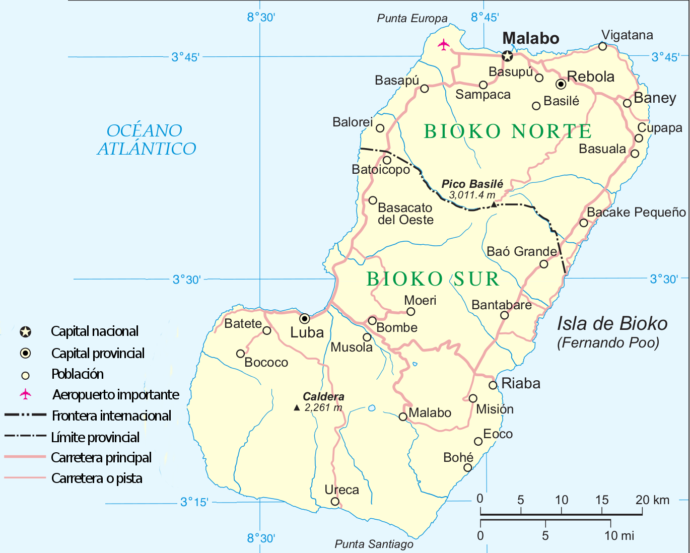 Map of the island of Bioko, Equatorial Guinea, in Spanish